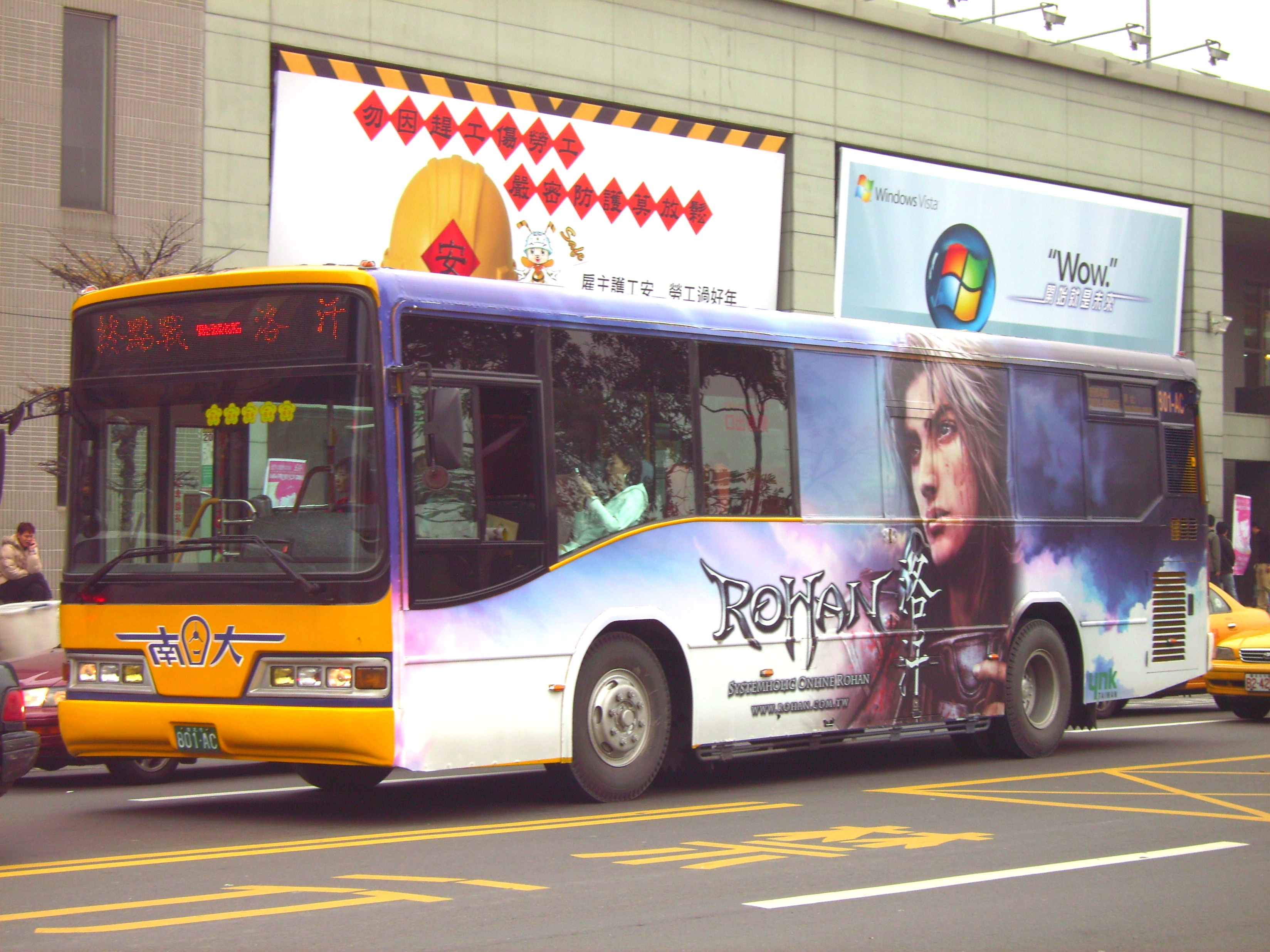 YNK Taiwan rented Bus and provided free shuttle bus. (2)